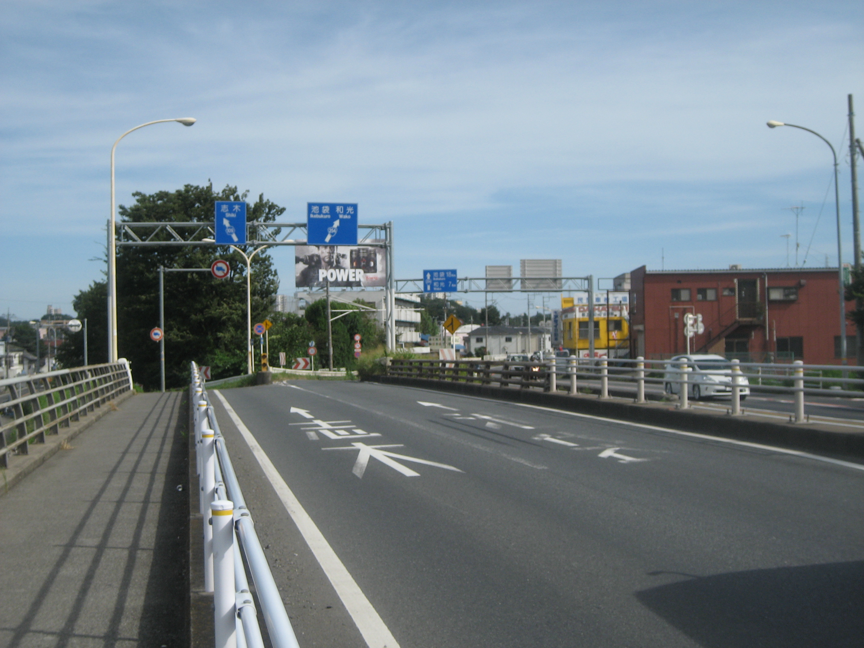 Hanabusa Inter Intersection on the Japanese National Route 254